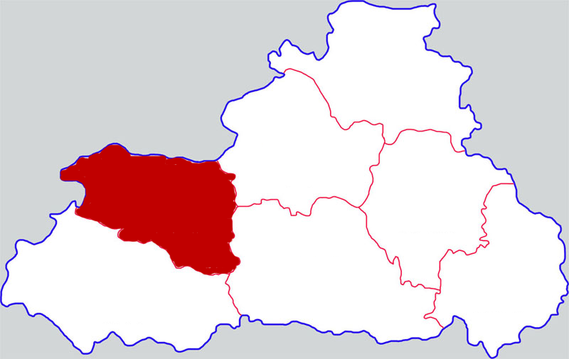 Location of Zhashui county in Shangluo city, China